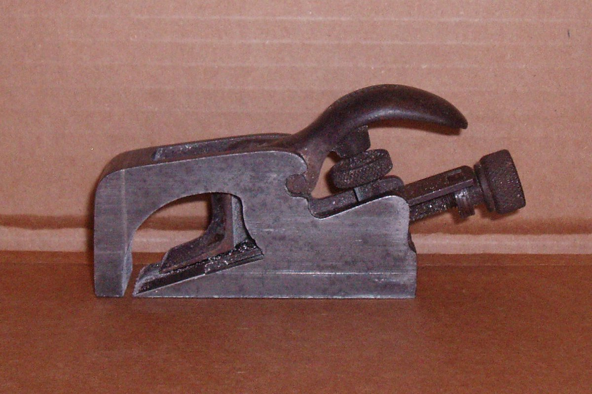 A Record no. 077A bullnose shoulder plane